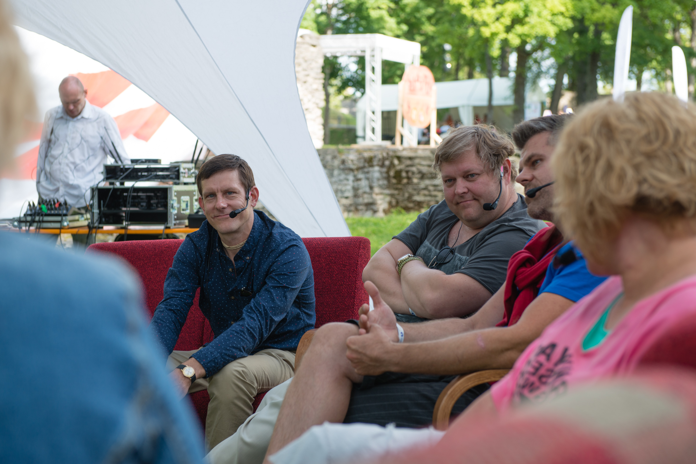 "Kas standup on uus Eesti teater"